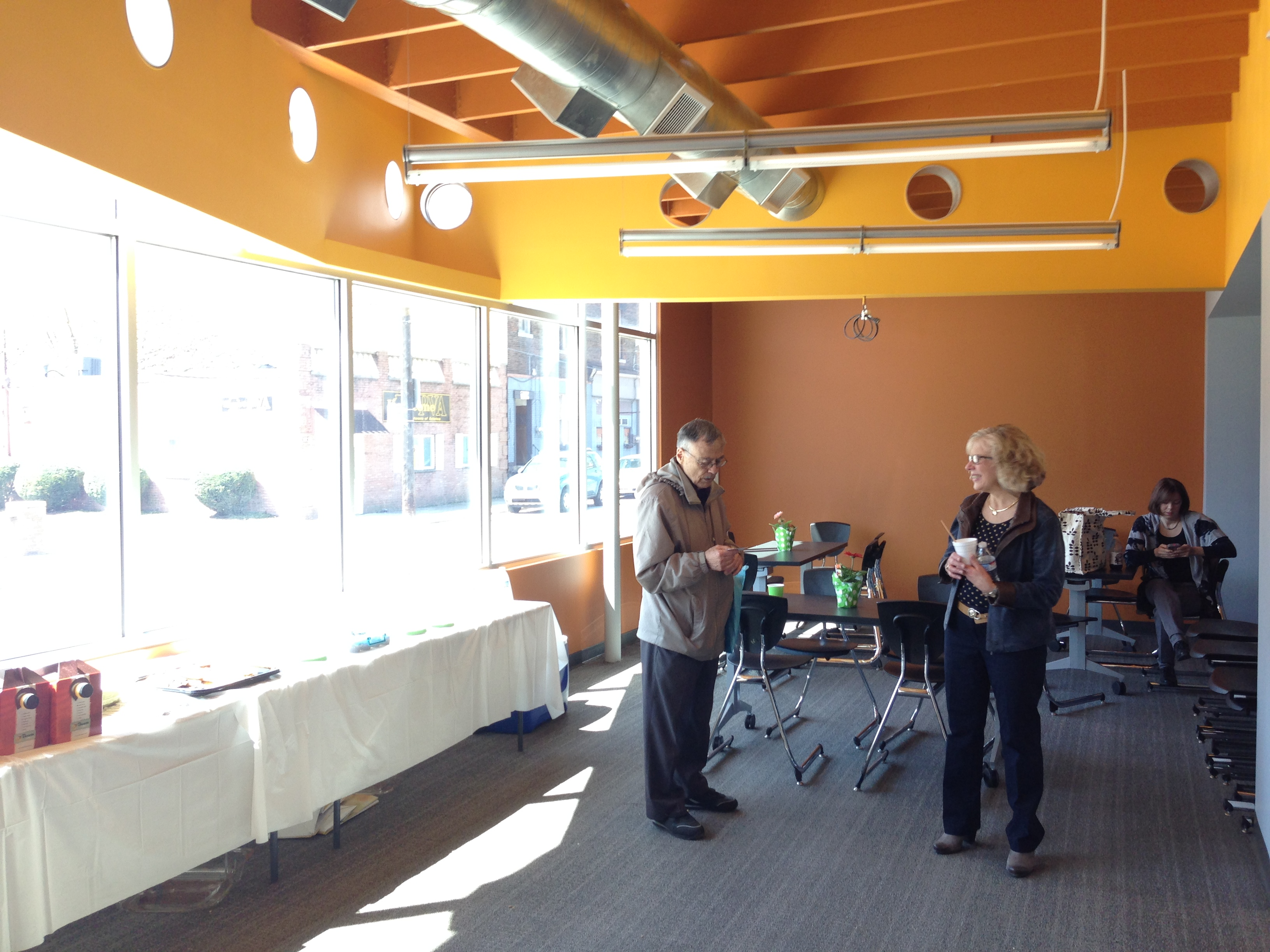 Sharpsburg Community Library.